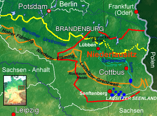 Map of the Landscape Lower Lusatia in Brandenburg (Germany)